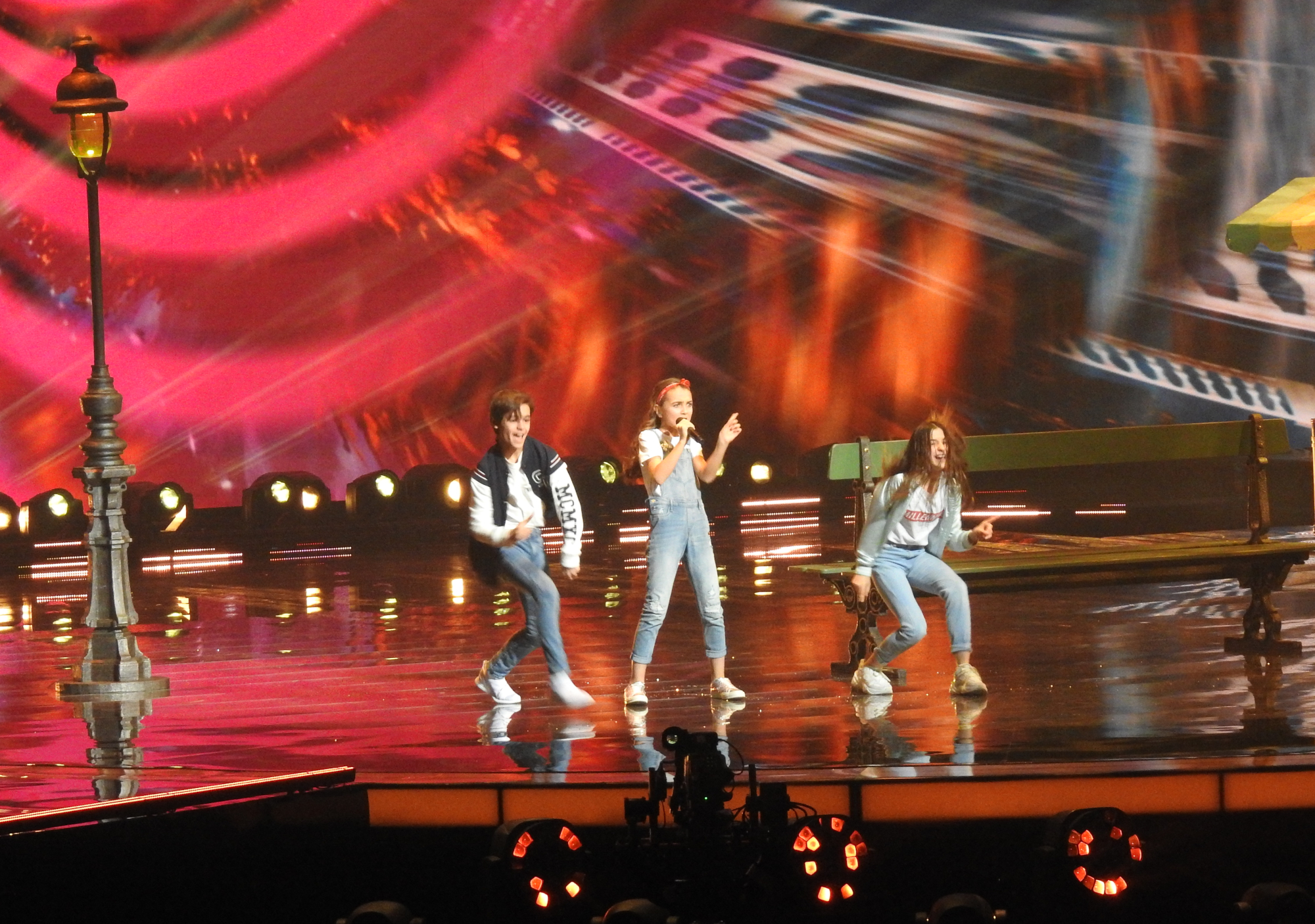 French singer Angelina performs at the dress rehearsal ahead of the 2018 Eurovision Junior Song Contest in Minsk.